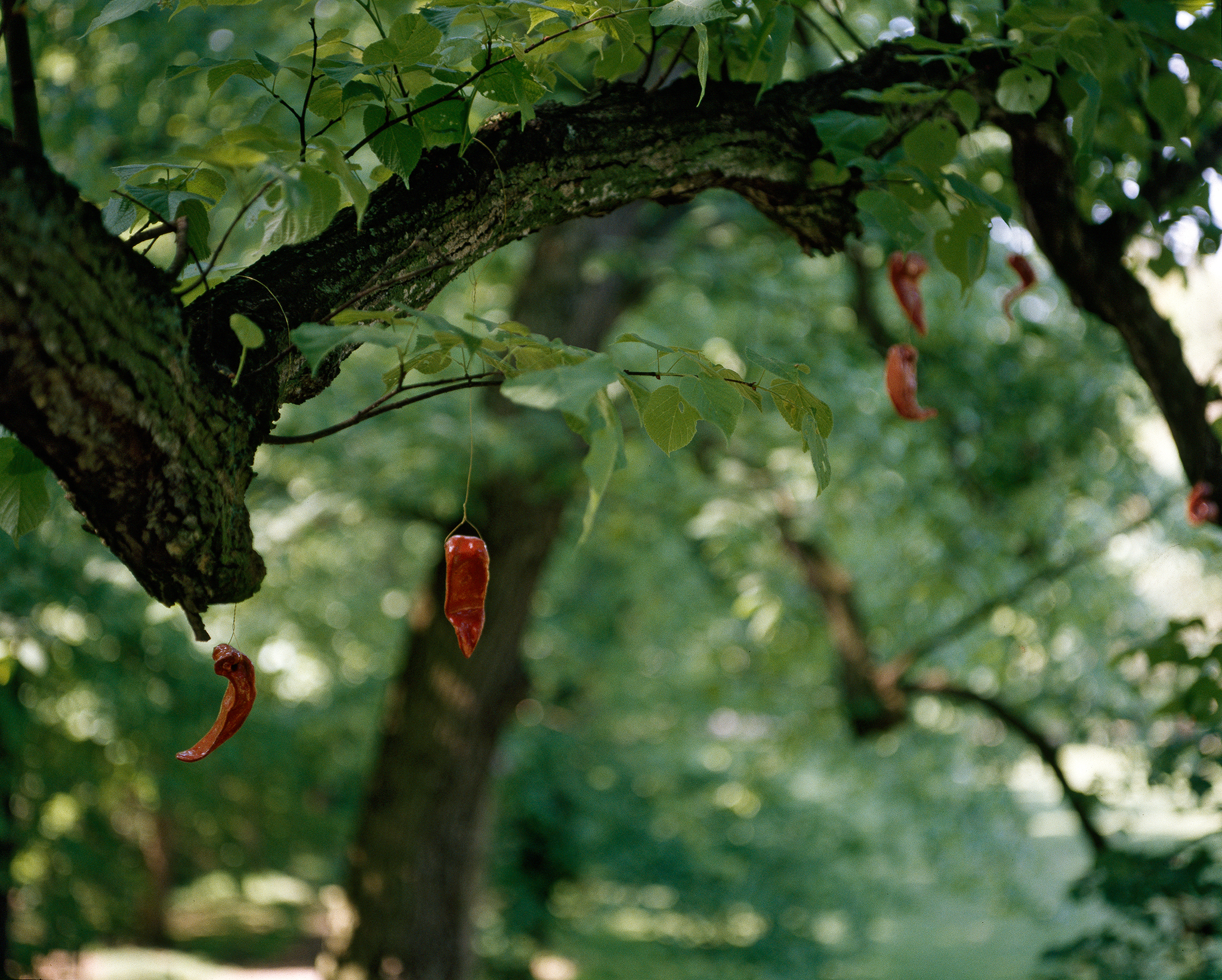 Thomas Schütte - installation view: New Sculptures, Middelheim Museum, Antwerp (1993)